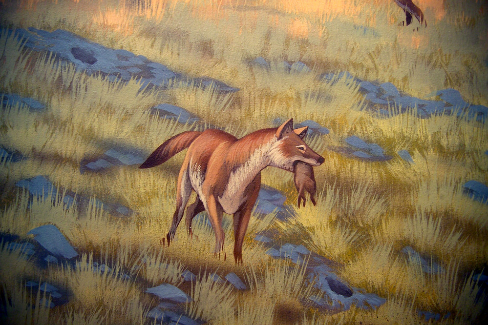 Vulpes stenognathus was a canid predator, related to modern red foxes, that preyed on smaller animals such as gophers and voles. It would have taken advantage of the thick bunch grasses in the landscape to ambush its prey. From Turtle Cove Member Mural from the Thomas Condon Paleontology Center, painted by Roger Witter.